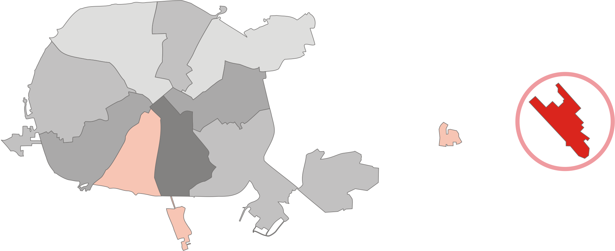 == Kalyadzichy industrial district, Sokal urban settlement and 'Minsk' National Airport area (925 ha) are added to Kastrychnitski district